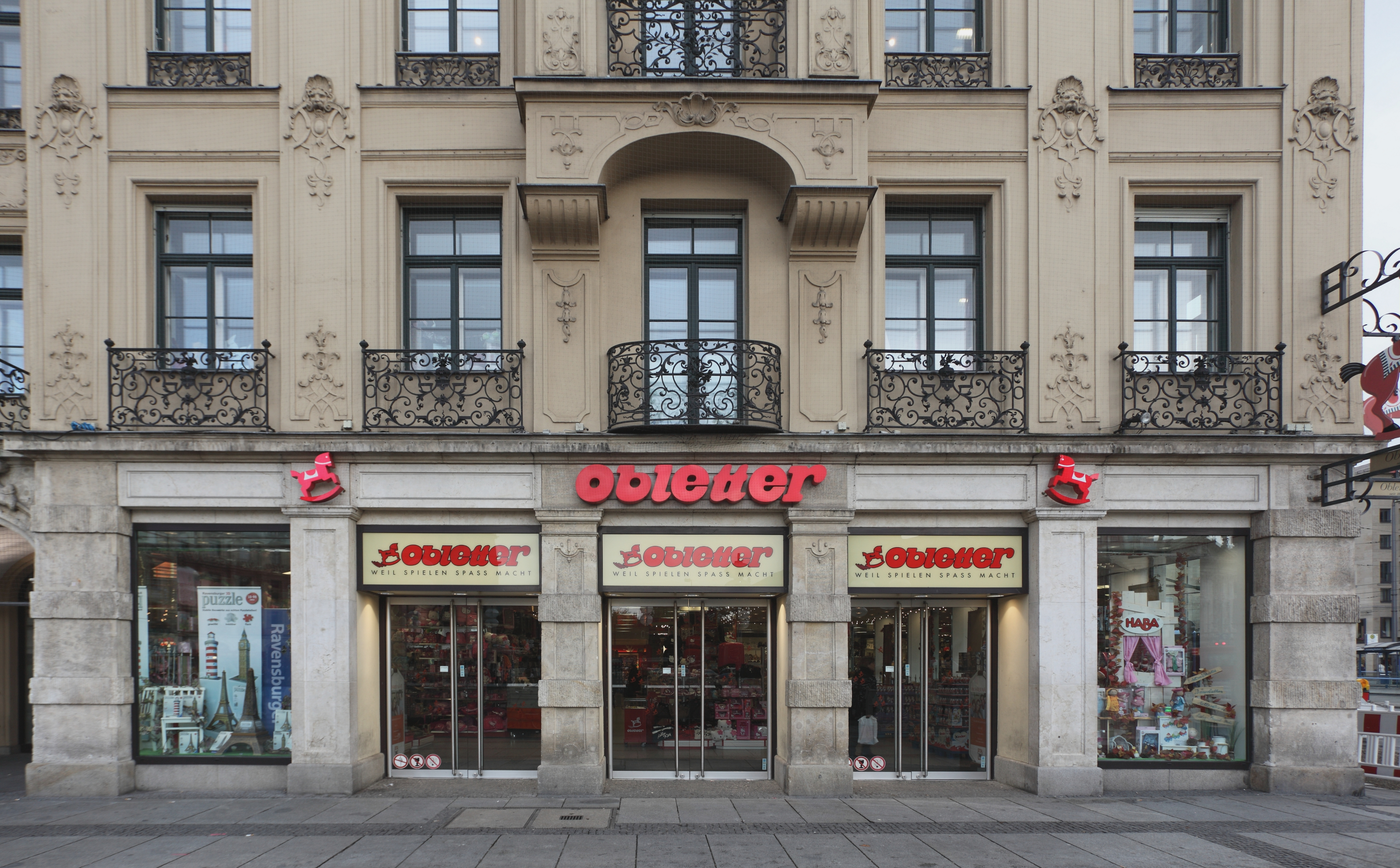 Toy store Obletter at Stachus in Munich, Germany